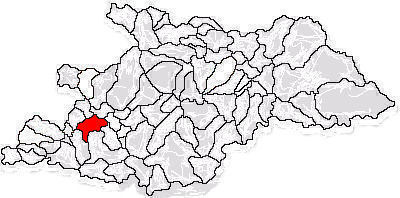 Map of Satulung commune in Maramures County